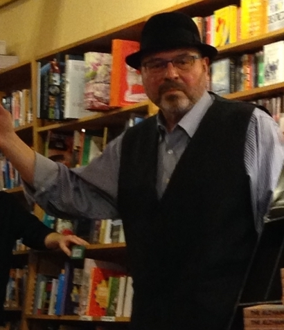 Joseph Di Prisco presents The Pope of Brooklyn at A Great Good Place For Books in Oakland, CA (2017)